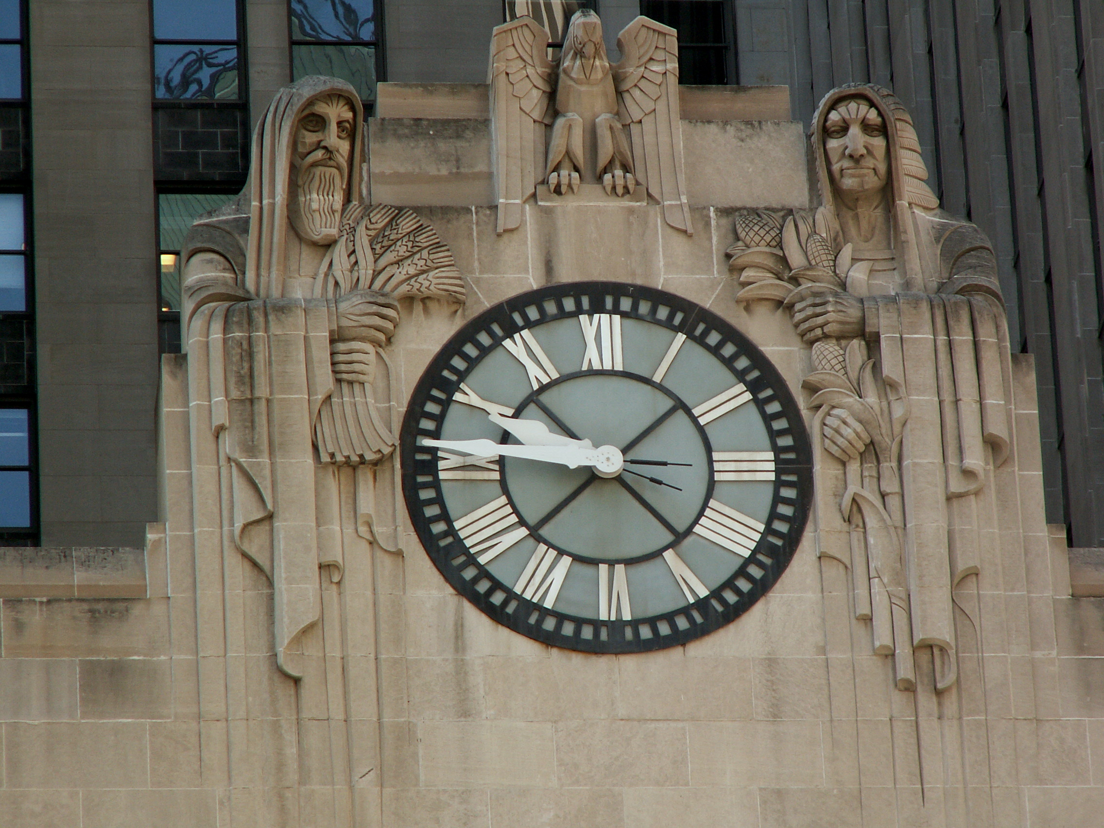 Chicago Board of Trade (detail)